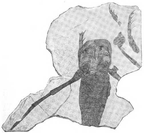 Stylonurella spinipes (Stylonurus logani) H. Woodward. Original figure. (From Woodward) The Eurypterida of New York. Volume 1. New York State Museum Memoir 14, figure 63